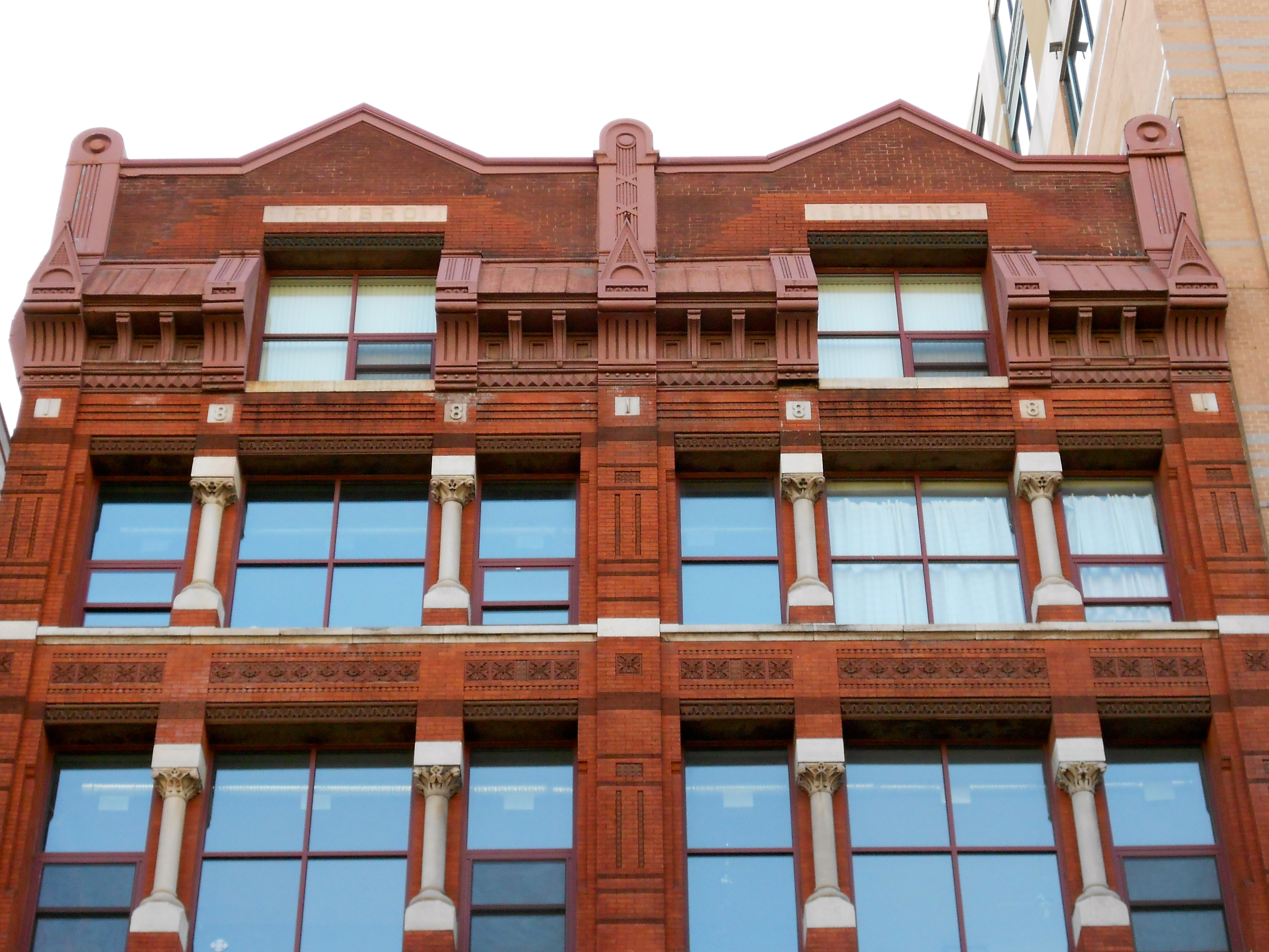 Rombro Building on the NRHP since May 26, 2005. At 22-24 S. Howard St. in south Baltimore, Maryland